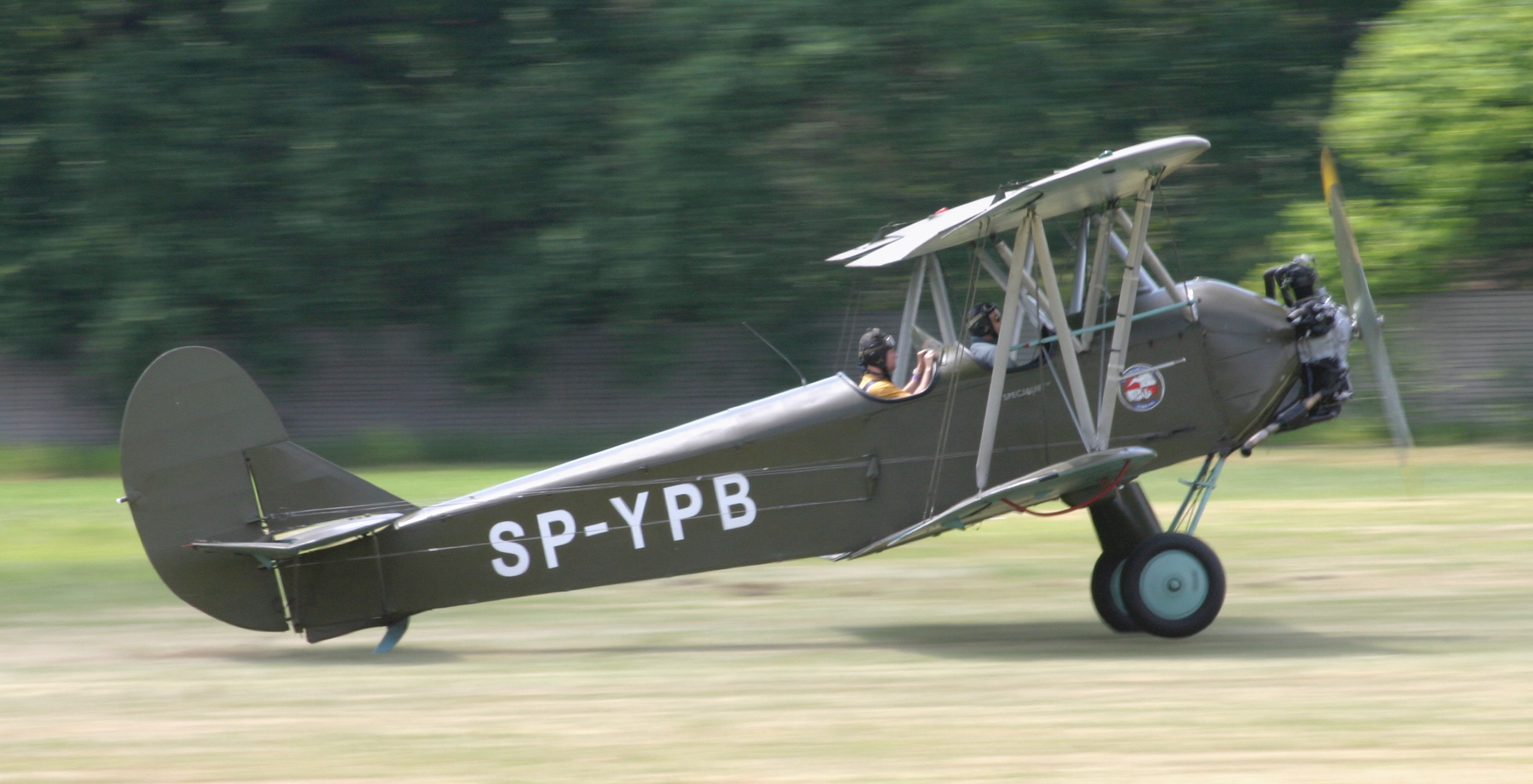 CSS 13 during Góraszka Air Picnic 2007